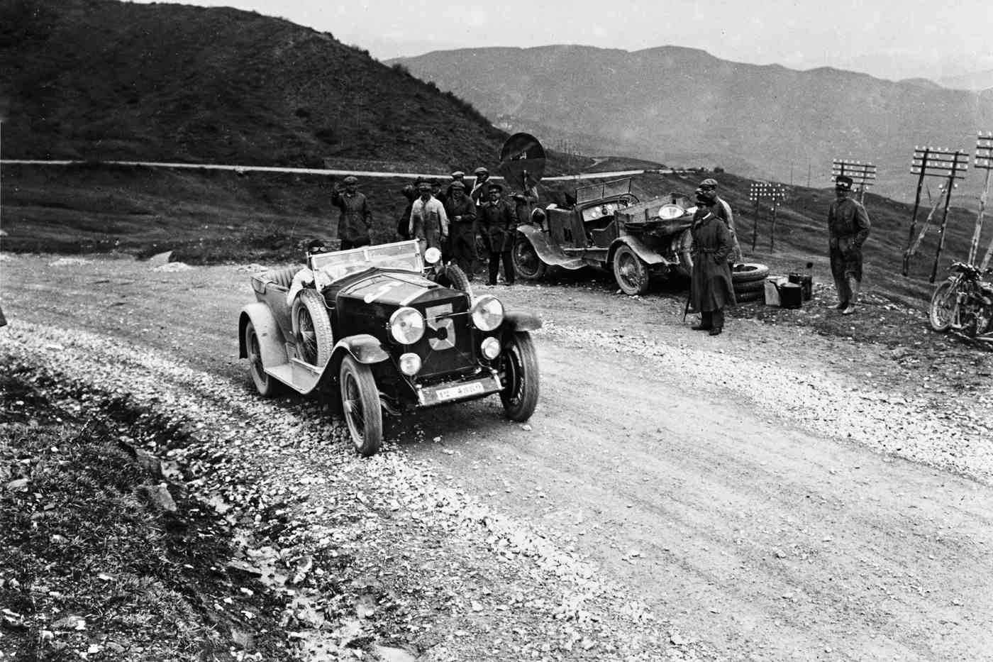 Isotta Fraschino Tipo 8A SS torpedio at the very first Mille Miglia on 27 March 1927, driven by Aymo Maggi and Bindo Maserati. They ended in 6th place.[1]